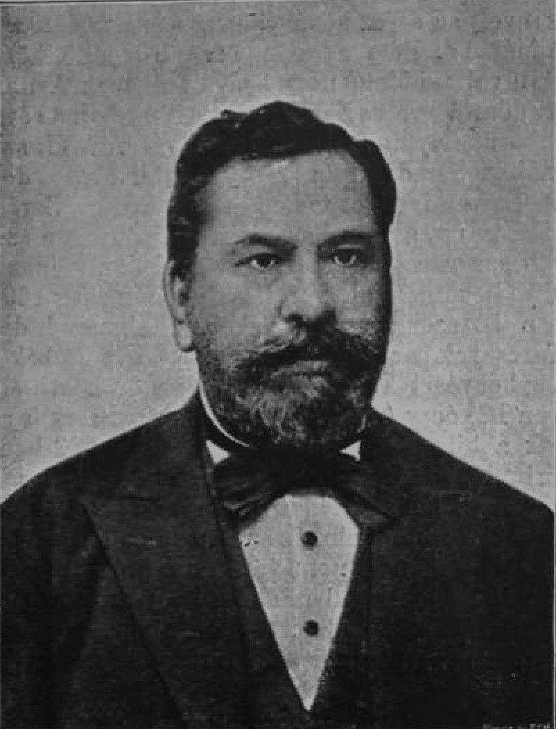 Portrait of Ferdinánd Barna